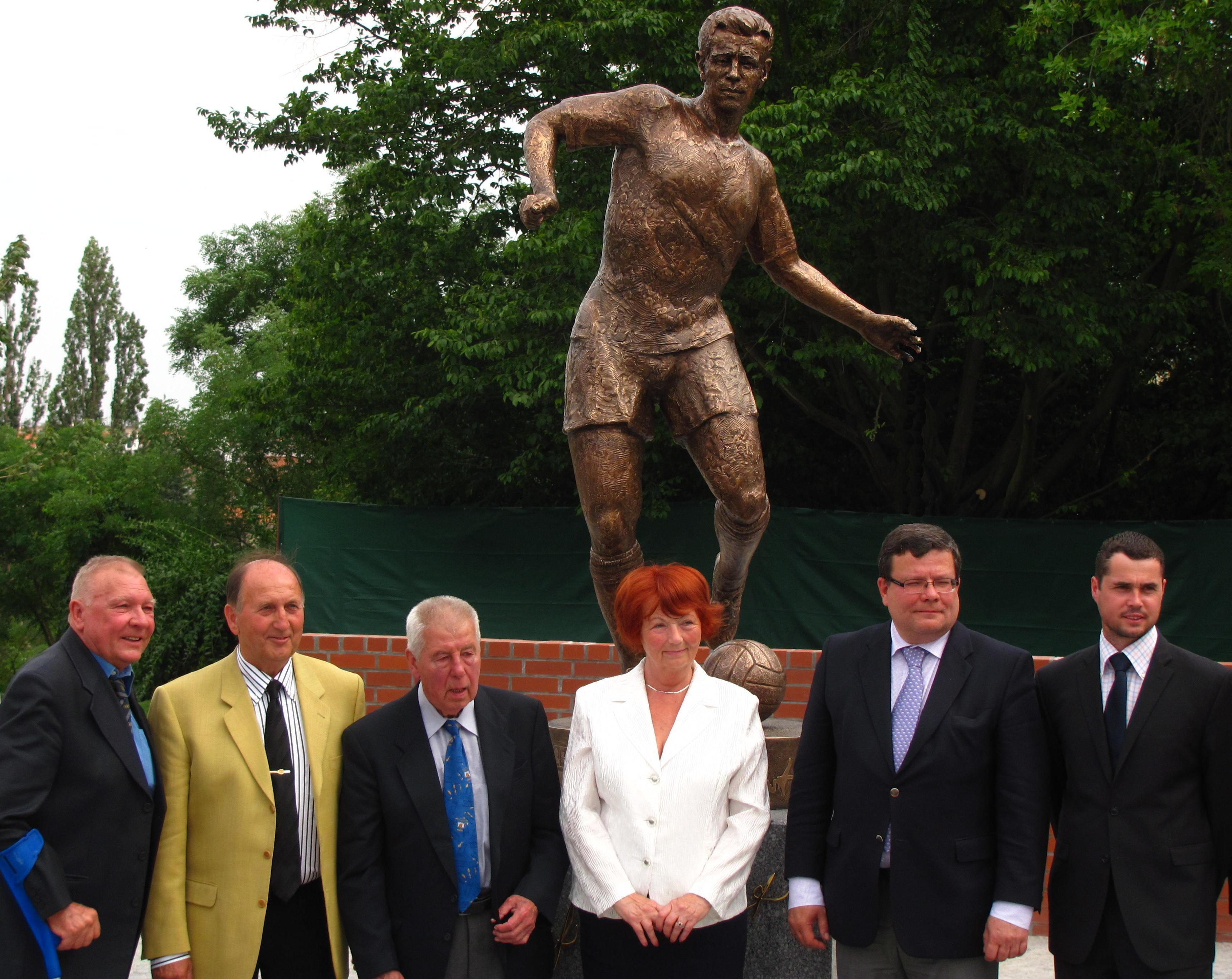 Marie Kousalíková, Mayor of Prague 6 - Josef Masopust, Czech footballer (on her right) - Alexander Vondra, Minister of Defense of the Czech Rep. (on her left)